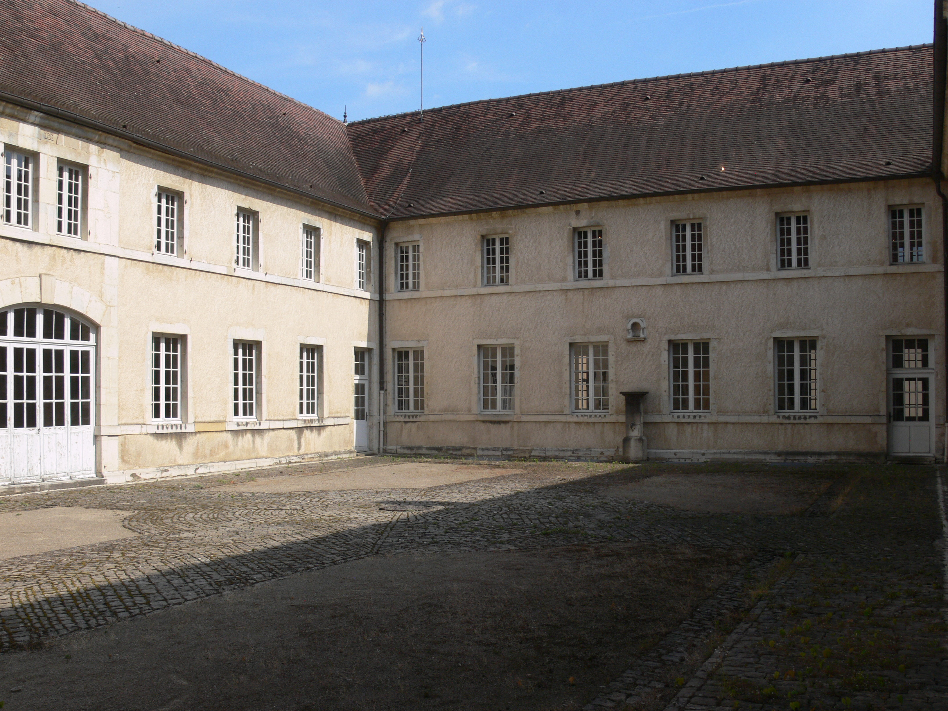 Ursulines convent, in Vesoul (Haute-Saône, France). Interior courtyard